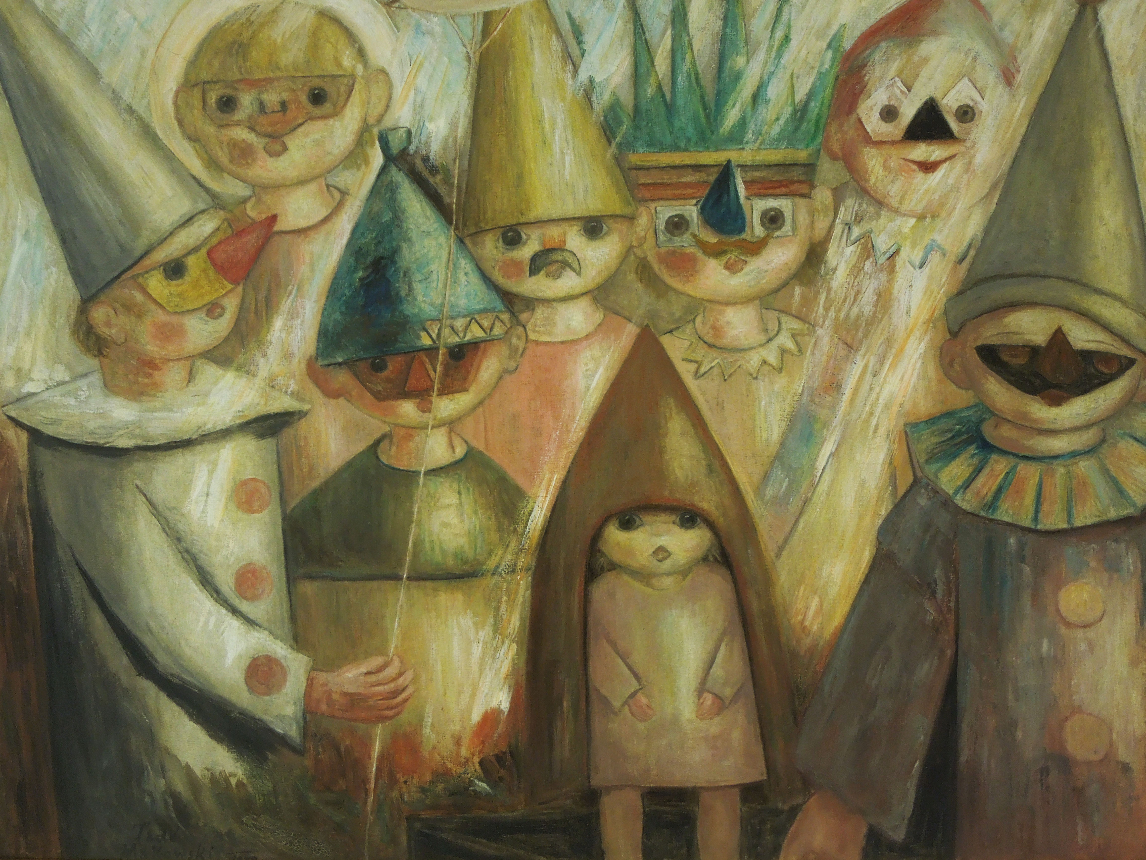 Tadeusz Makowski - Masquerade, 1928